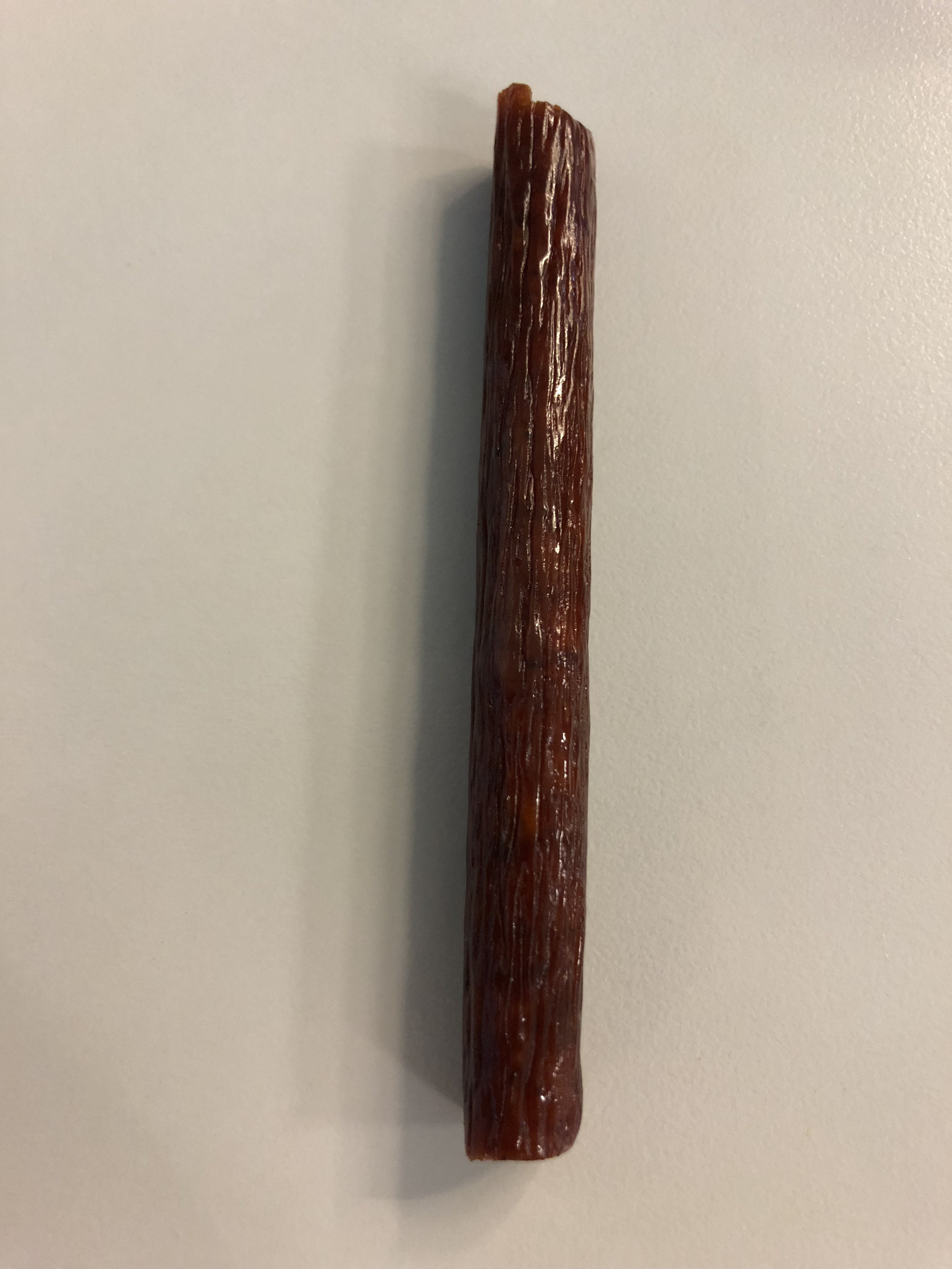 A small original Slim Jim in the Dulles section of Sterling, Loudoun County, Virginia